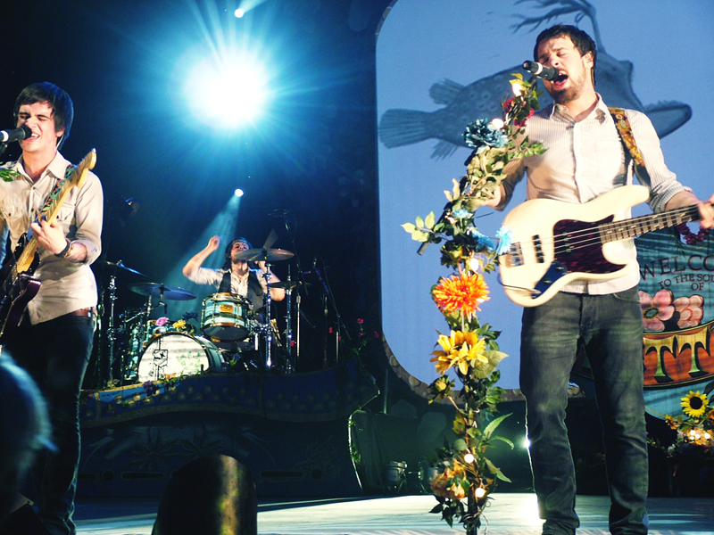 Panic! At The Disco